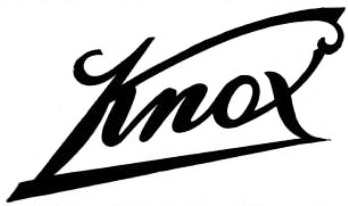 Knox Automobile logo